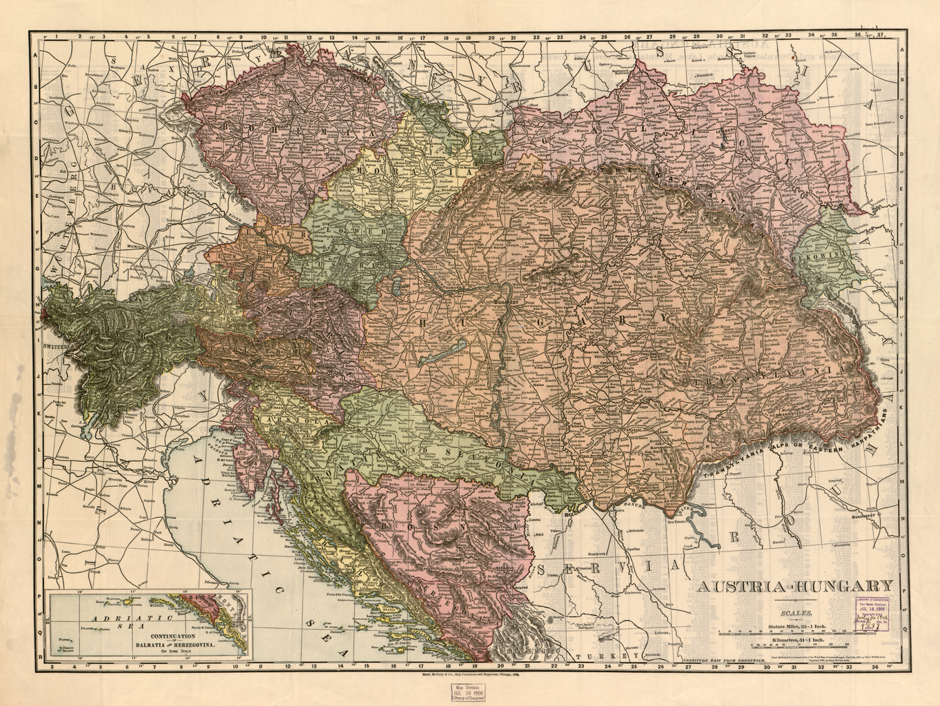 The Austro-Hungarian Empire (1867-1918) was a multi-ethnic, multi-lingual empire governed by a dual monarchy that exercised Habsburg rule across Europe’s second largest sovereign territory. Although considered a Great Power in the concert of European nations, the empire was internally divided by internecine quarrels among its national minorities and ultimately broke up under the strains of World War I. This 1906 Rand McNally map shows the empire in the decade before its dissolution. William Rand founded the company that became Rand McNally in Chicago in 1856, initially to print guidebooks and directories. In 1858, he hired Andrew McNally, who became his business partner ten years later. The company soon became a prolific publisher of atlases, maps, globes, and travel guides. Its commercial success was largely due to its adoption in 1872 of a wax engraving process known as cerography and by its nearly simultaneous development of the popular Pocket Maps, of which this map is an example. Balkan Peninsula; Europe, Central; Europe, Eastern